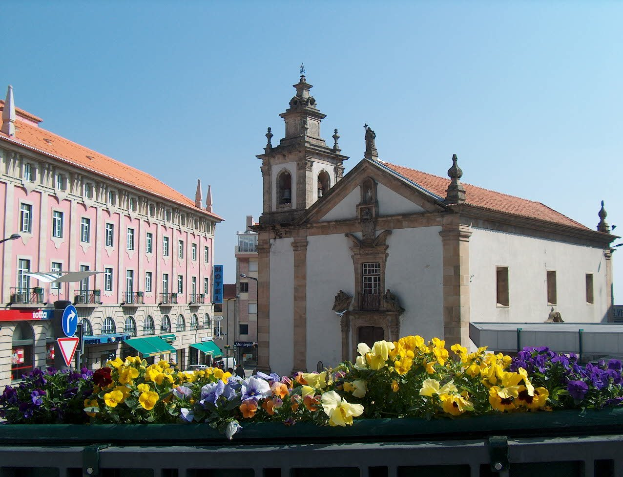 Mercy Church, Covilhã